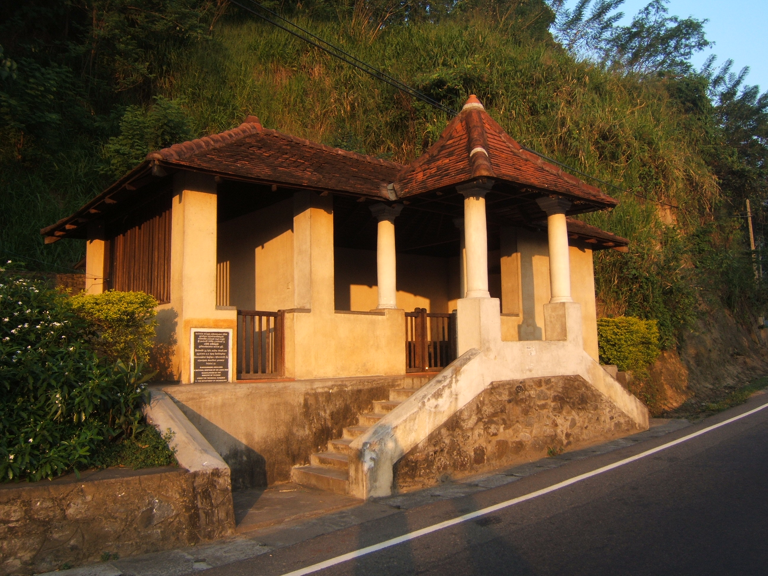 Photograph of Kadugannawa Ambalama සිංහල: කඩුගන්නාව අම්බලම